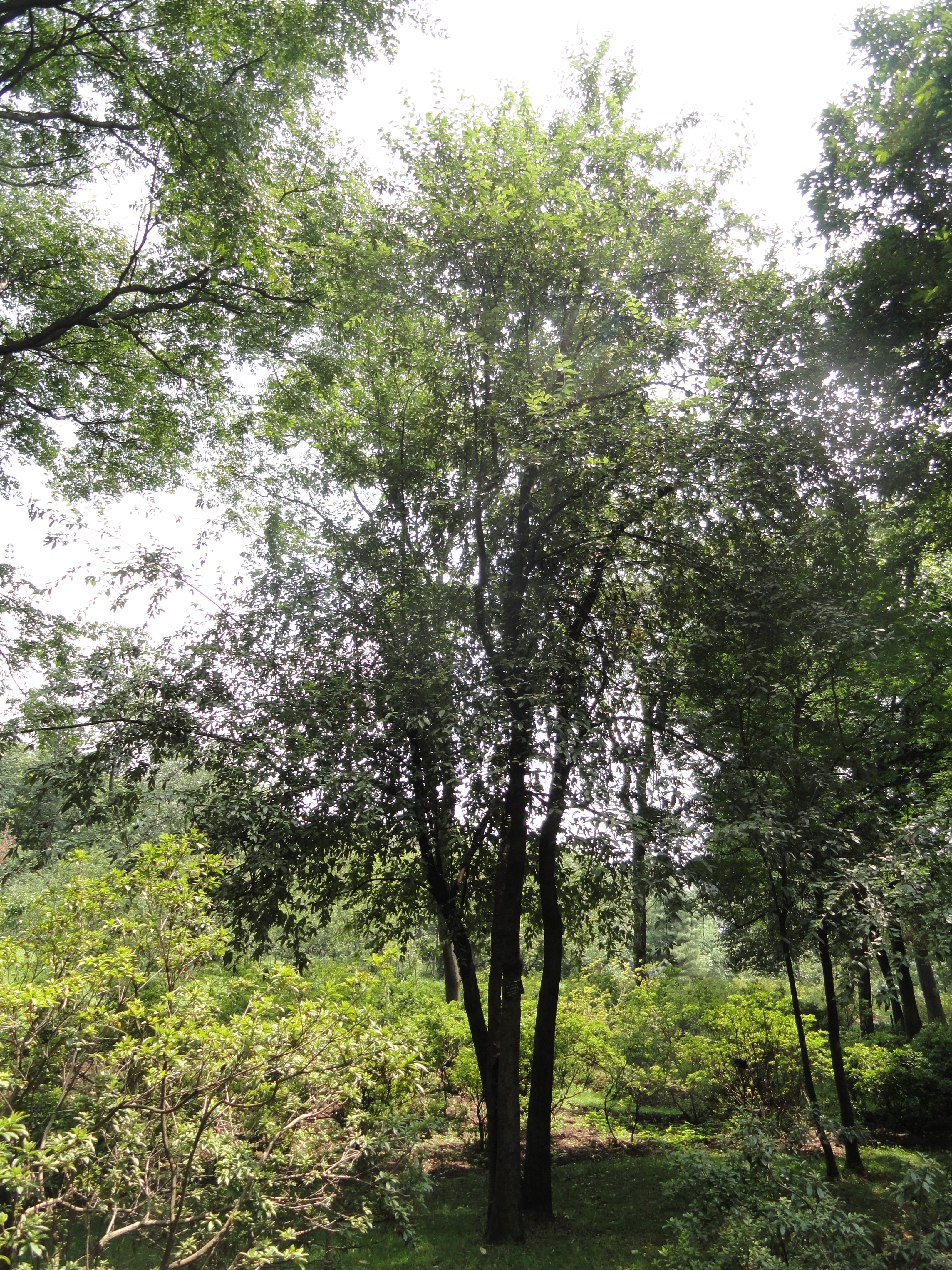 Plant specimen in the Kunming Botanical Garden, Kunming, Yunnan, China.